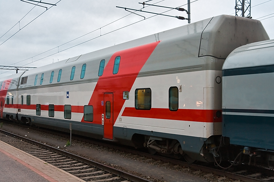 VR class Edm sleeping car #28511.